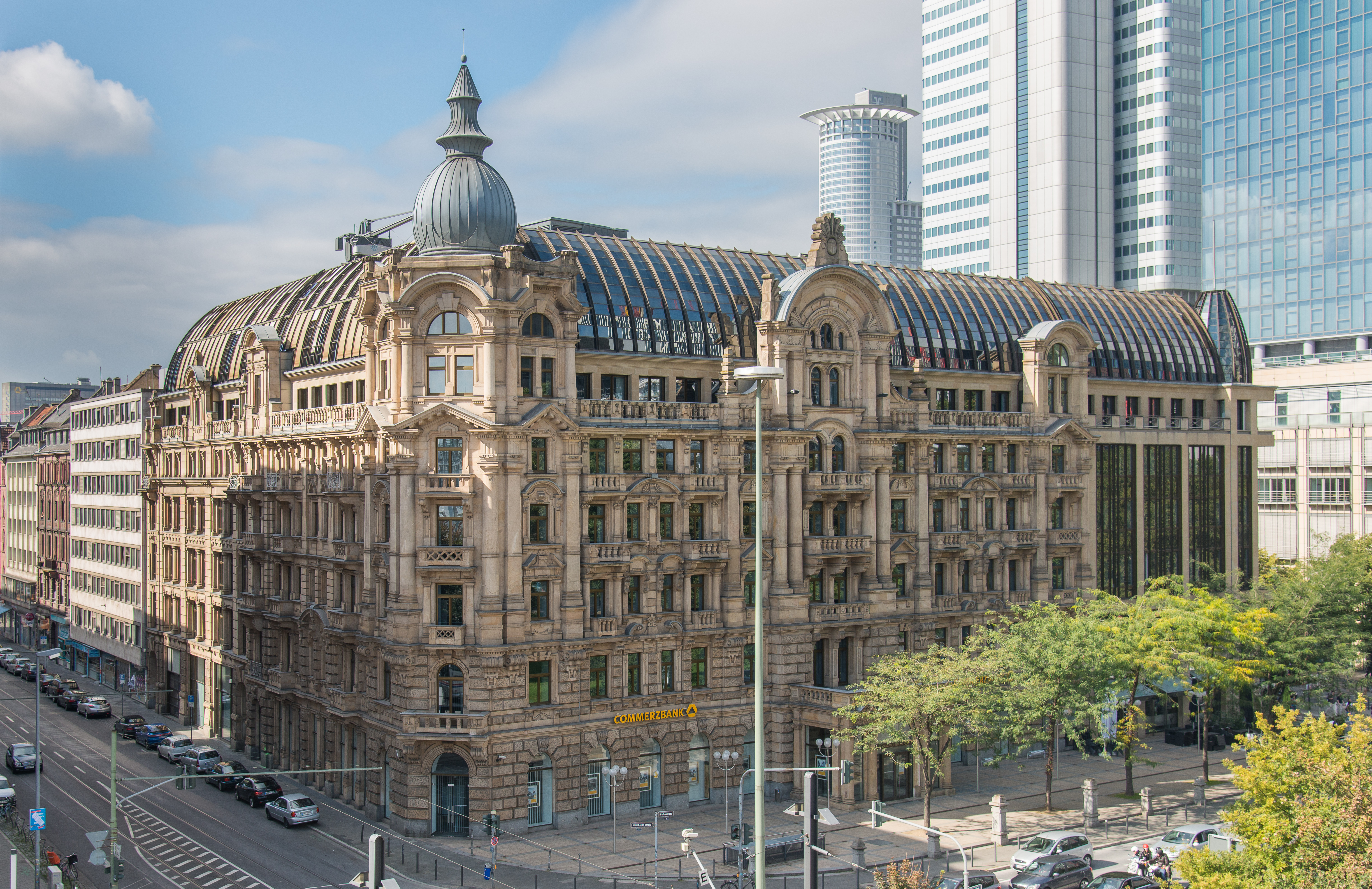 Frankfurt am Main, Gallusanlage 2 (Fürstenhof), as seen from East. Cultural monument of the city from 1902.